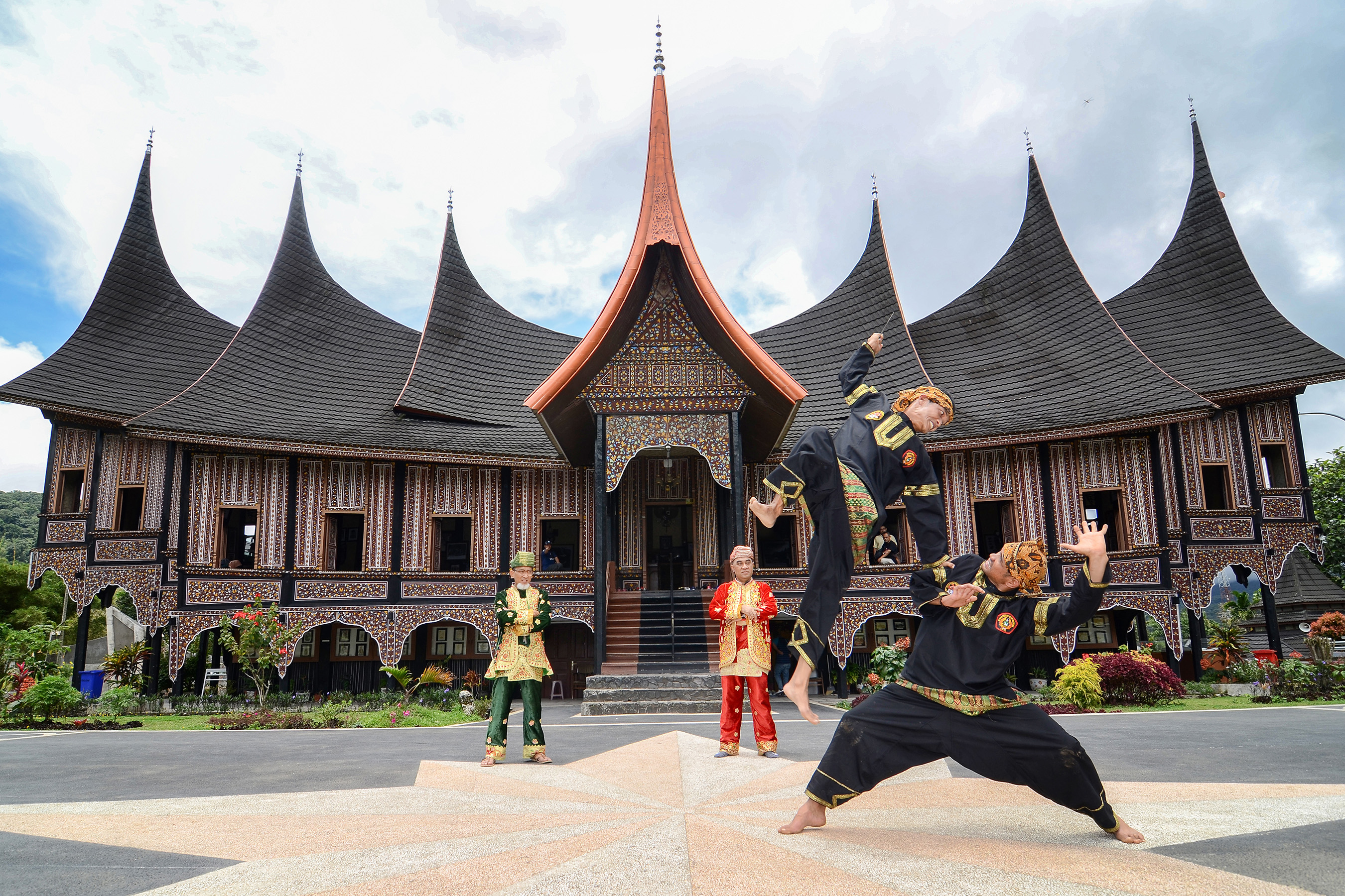 silek or silat is a traditional martial art of cultural heritage of our forefathers of the nation of indonesia. with this martial arts our heroes dare to defend this country from the occupation of a foreign country that wants to dominate our country, now silat / silek has been recognized by the world, namely UNISCO as an intangible world heritage from Indonesia. Silek / Silat Martial Arts is now widely enjoyed by the community and even foreign people who come to Indonesia and want to learn it